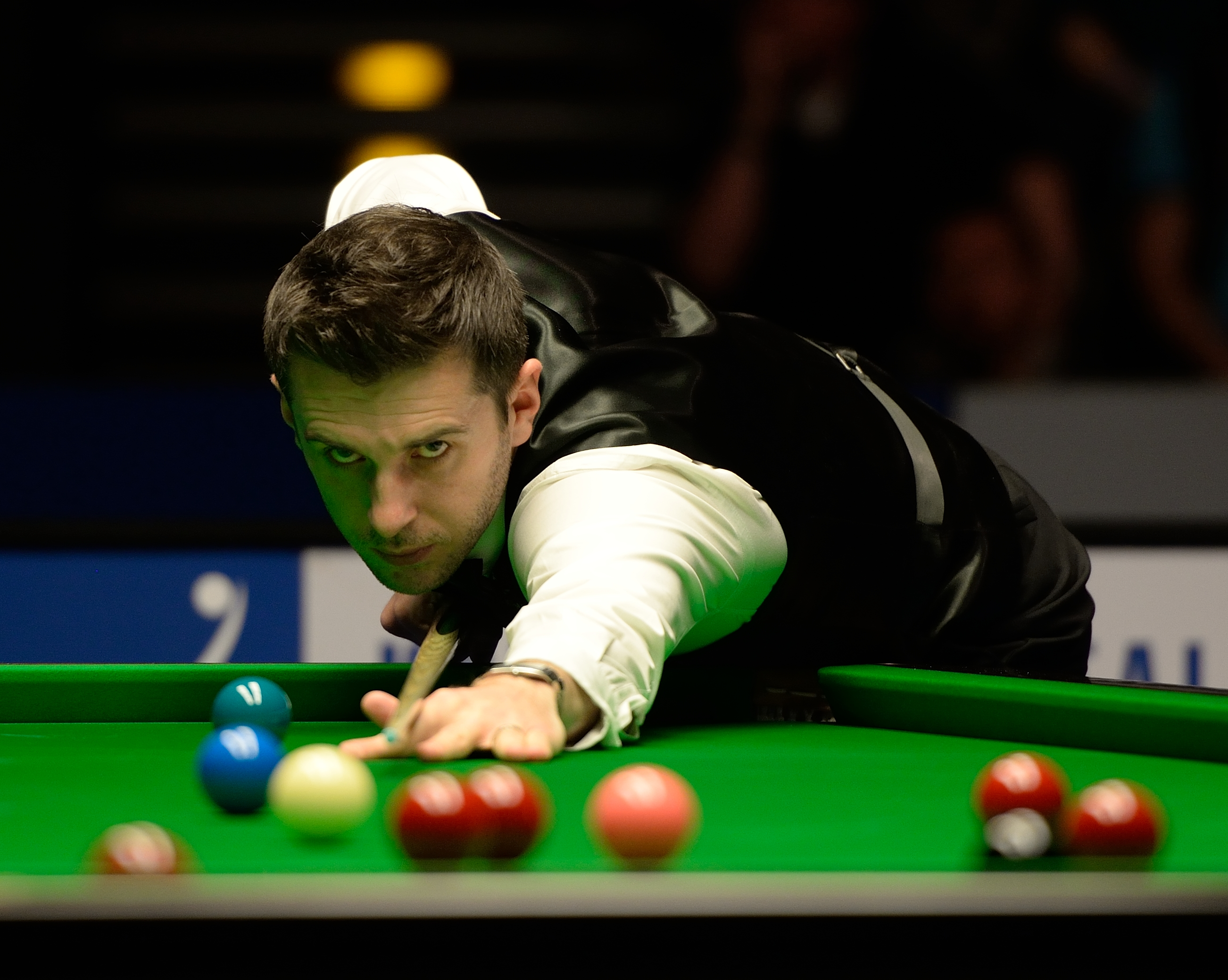 Picture taken in Berlin during the Snooker German Masters in 2015. Mark Selby.